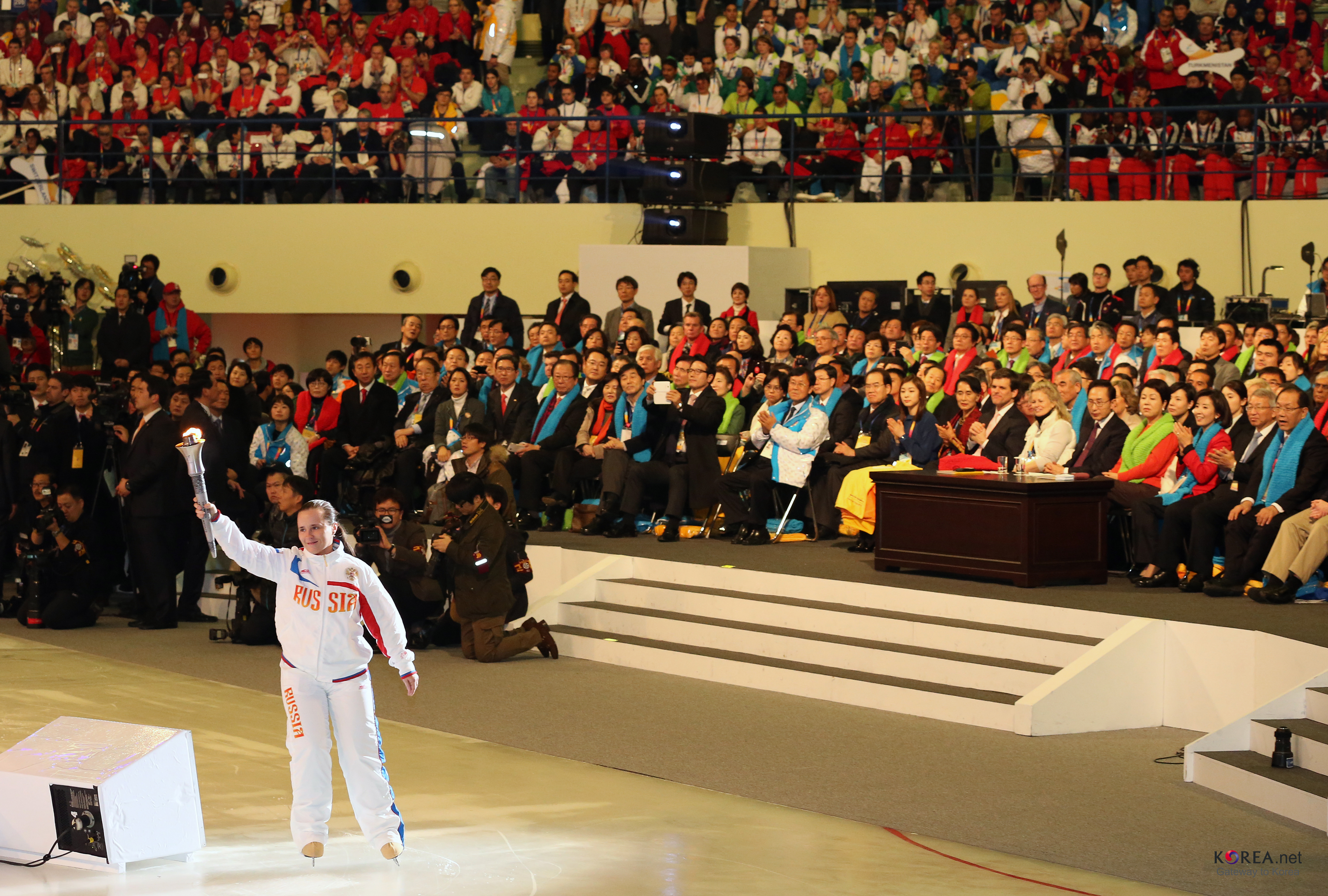 2013 PyeongChang The Special Olympics World Winter Games Opening Ceremoney PyeongChang Dome, PyeongChang, Gangwon-Do 2013.01.29. Ministry of Culture, Sports and Tourism Korean Culture and Information Service Jeon Han 2013 평창 동계 스페셜올림픽 세계대회 개막식 용평돔, 평창, 강원도 문화체육관광부 해외문화홍보원 코리아넷 전한